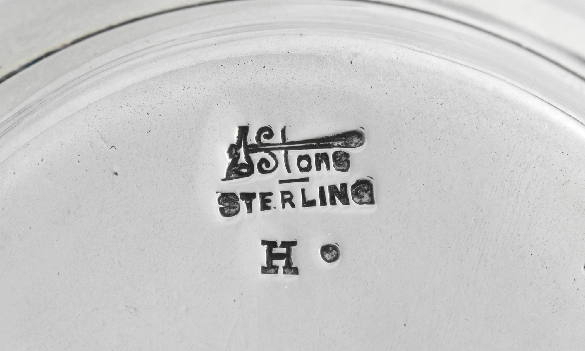 American; Porringer; Silver